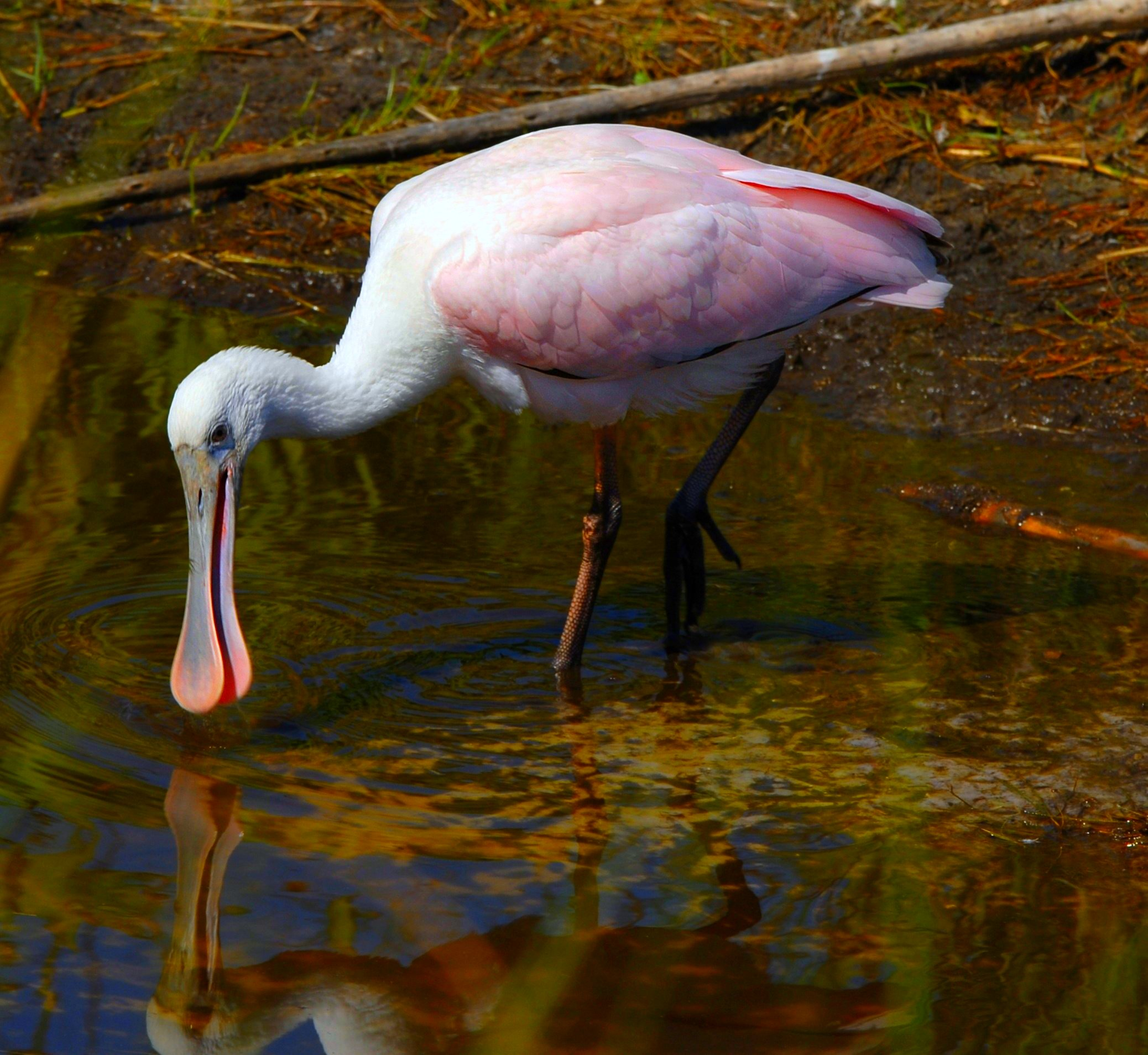 Speak to Me Softly..... Juvenile Roseate Spoonbill at Lake Woodruff National Wildlife Refuge, DeLeon Springs, Florida